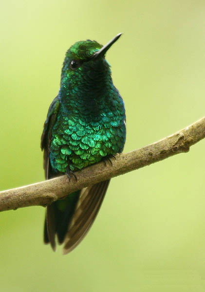 Western Emerald (Chlorostilbon melanorhynchus) at Tandayapa Bird Lodge, NW Ecuador.